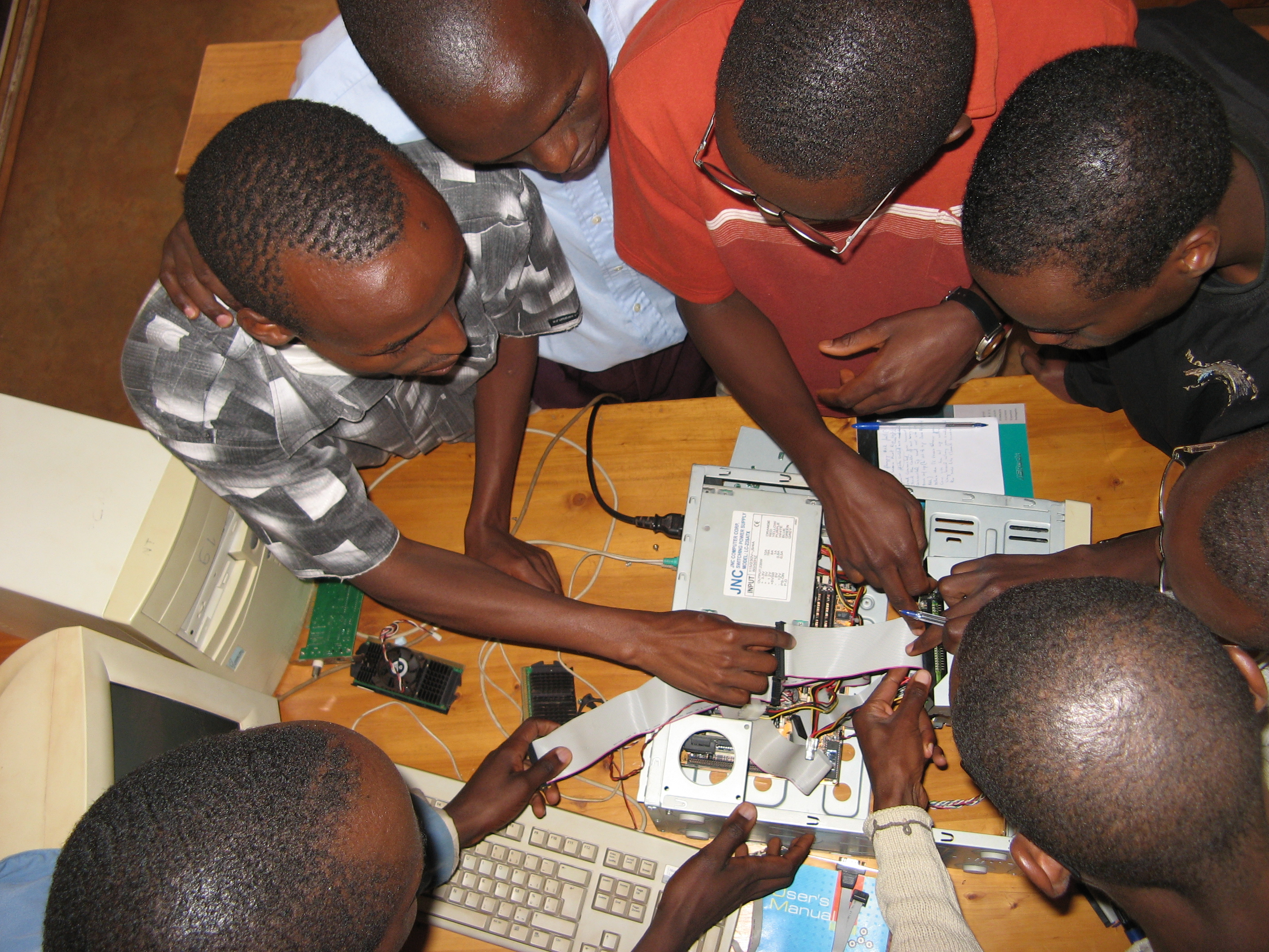 University Cooperation for Development (by TEDECO)